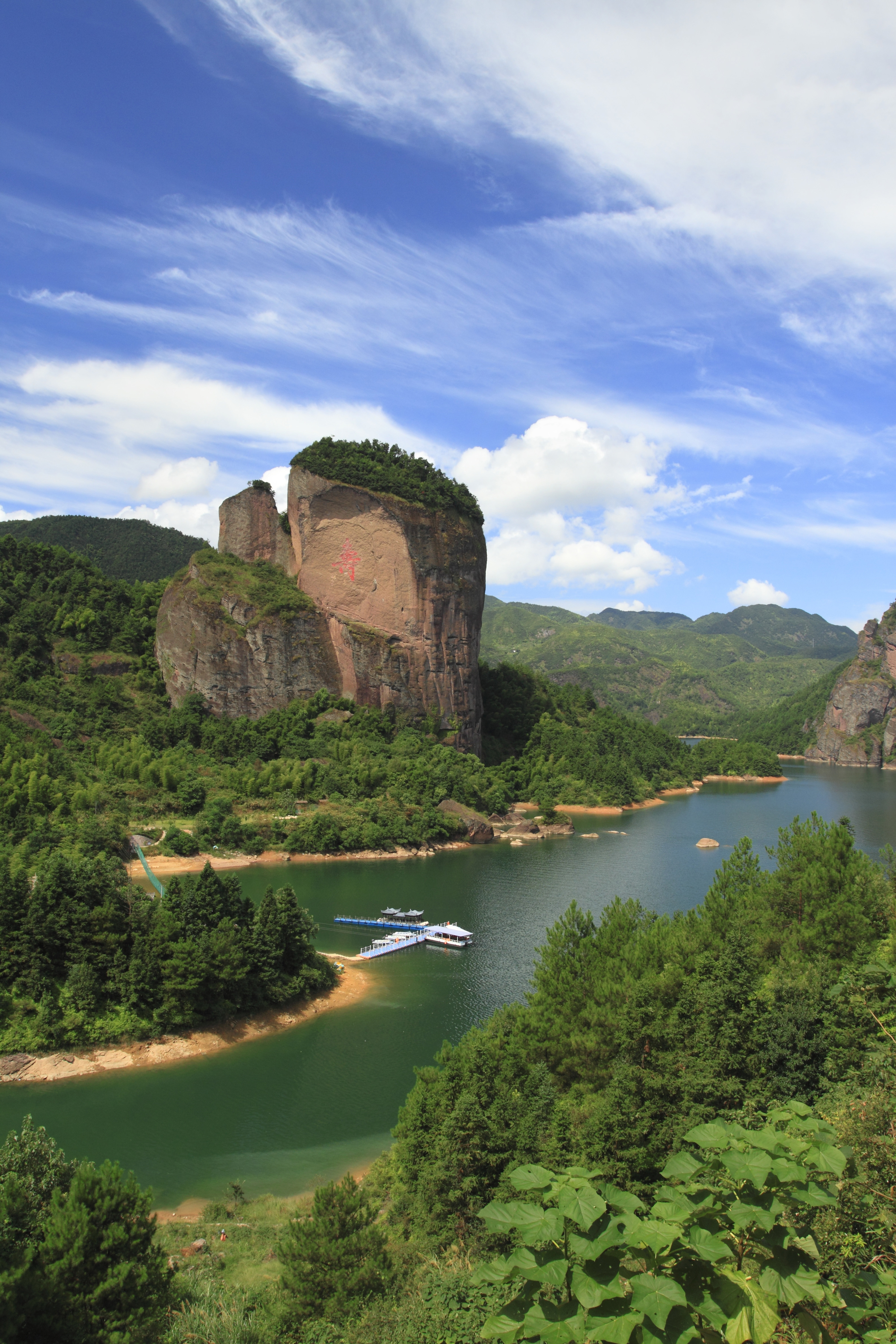 Juntan reservoir lake, Jiangxi province, China.